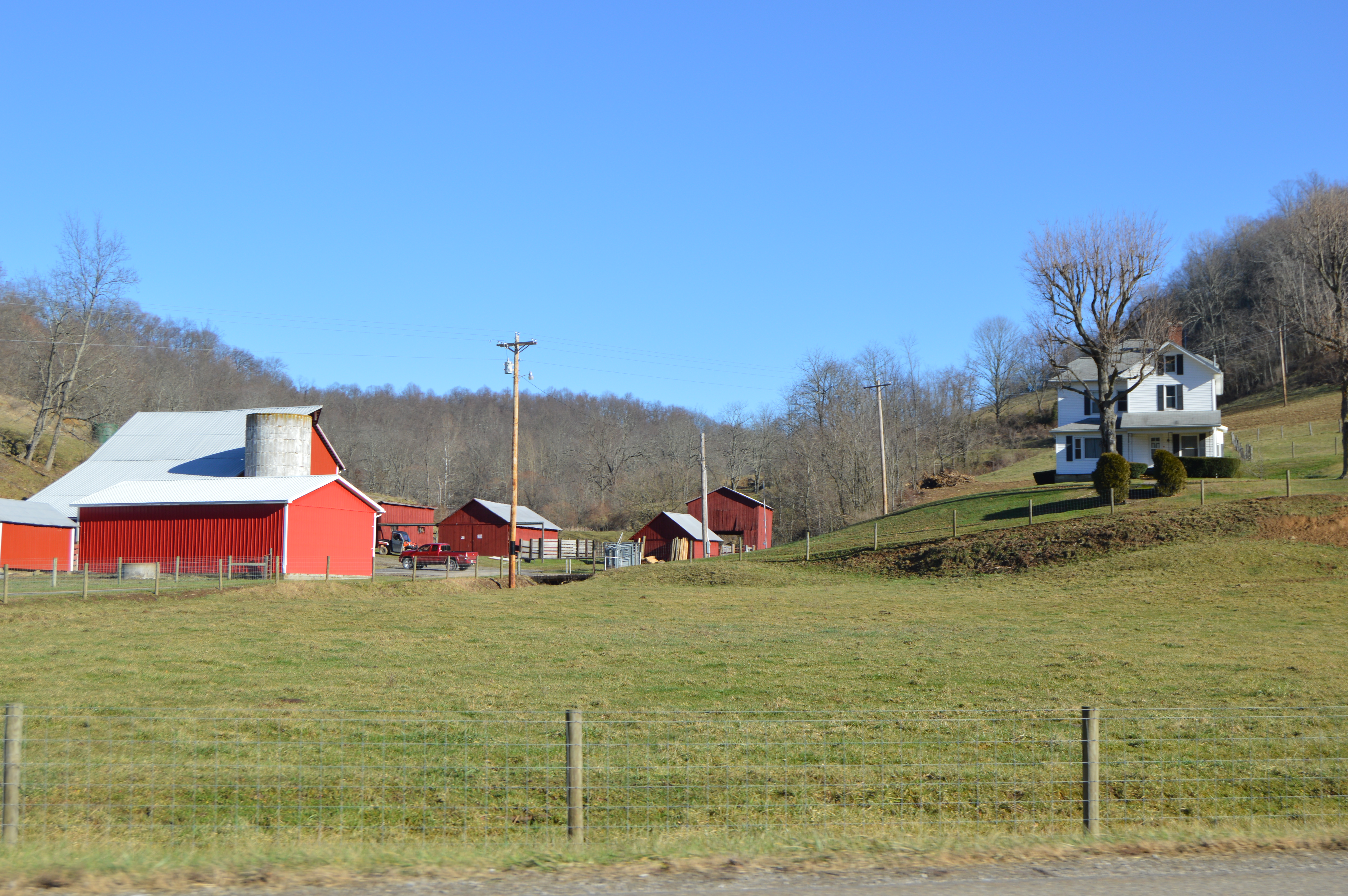 A farmstead on the eastern side of State Route 78 in the northwestern corner of Franklin Township, Monroe County, Ohio, United States.